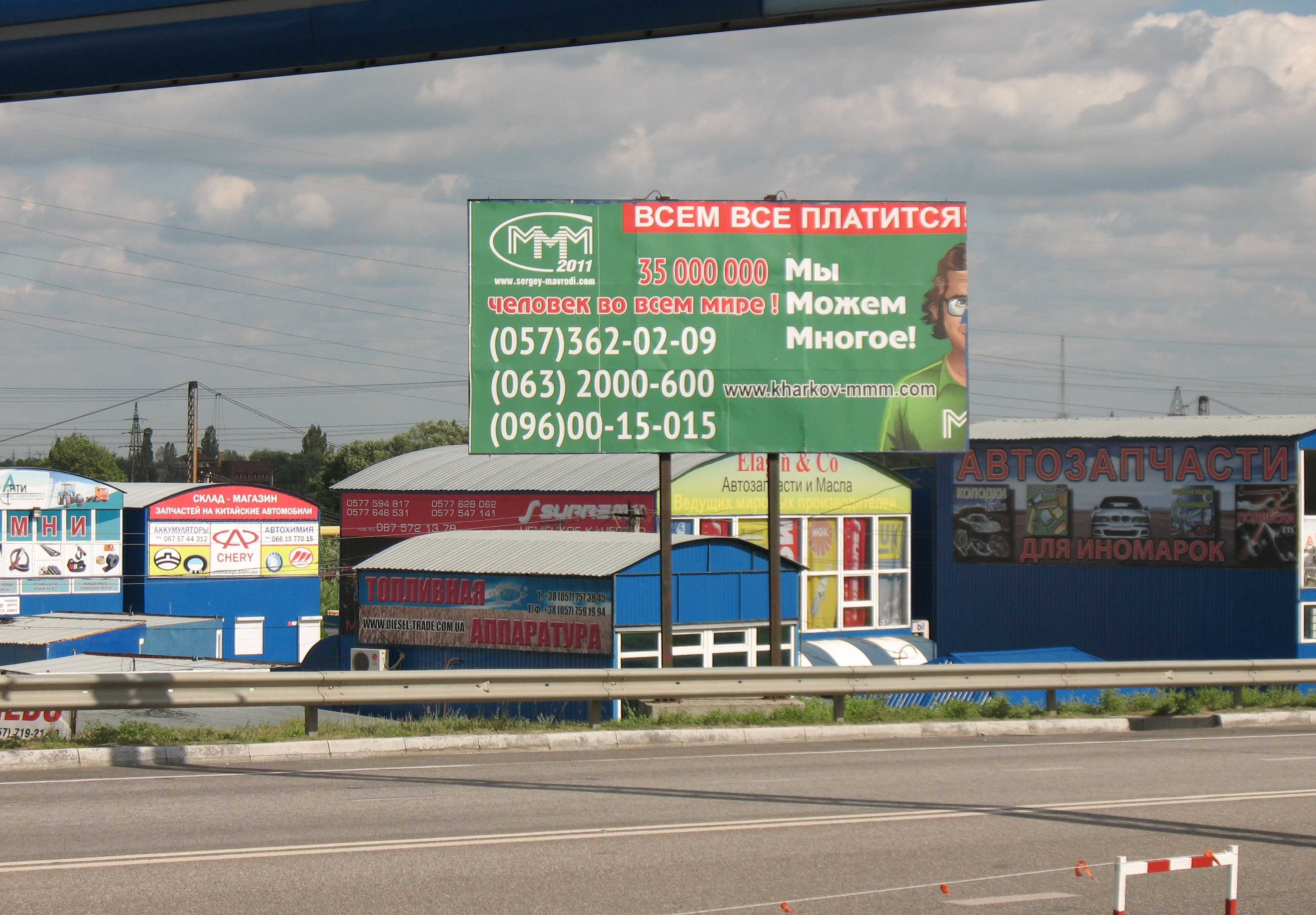 Kharkov Ring Road. Losk.